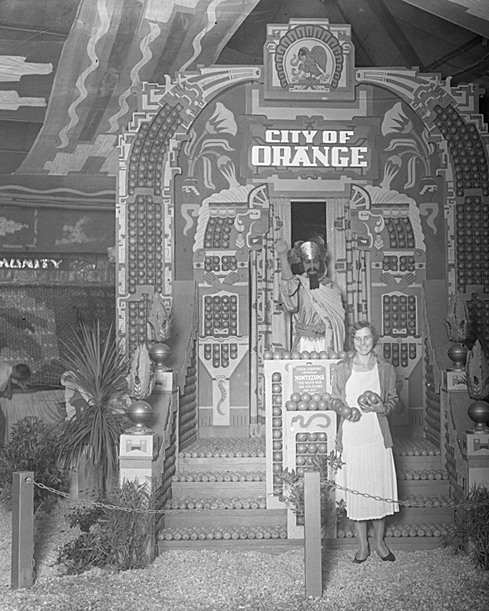 Title: City of Orange's exhibit for the Valencia Orange Show depicting Montezuma in temple Published caption: Decorative Motif Strikingly Carried Out in City of Orange Exhibit. Publication: Los Angeles Times Publication date: June 5, 1931 Source: Los Angeles Times photographic archive, UCLA Library Licensing: Note about non-renewal of copyright: [1] Category:Images of California